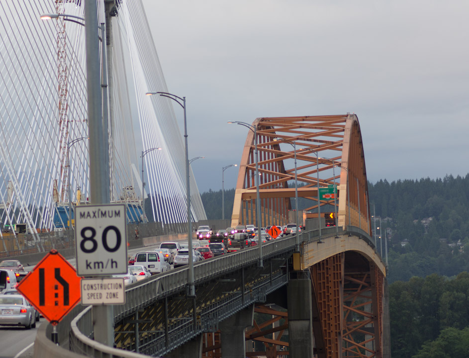 The old Port Mann bridge with its under-construction replacement rising beside it.